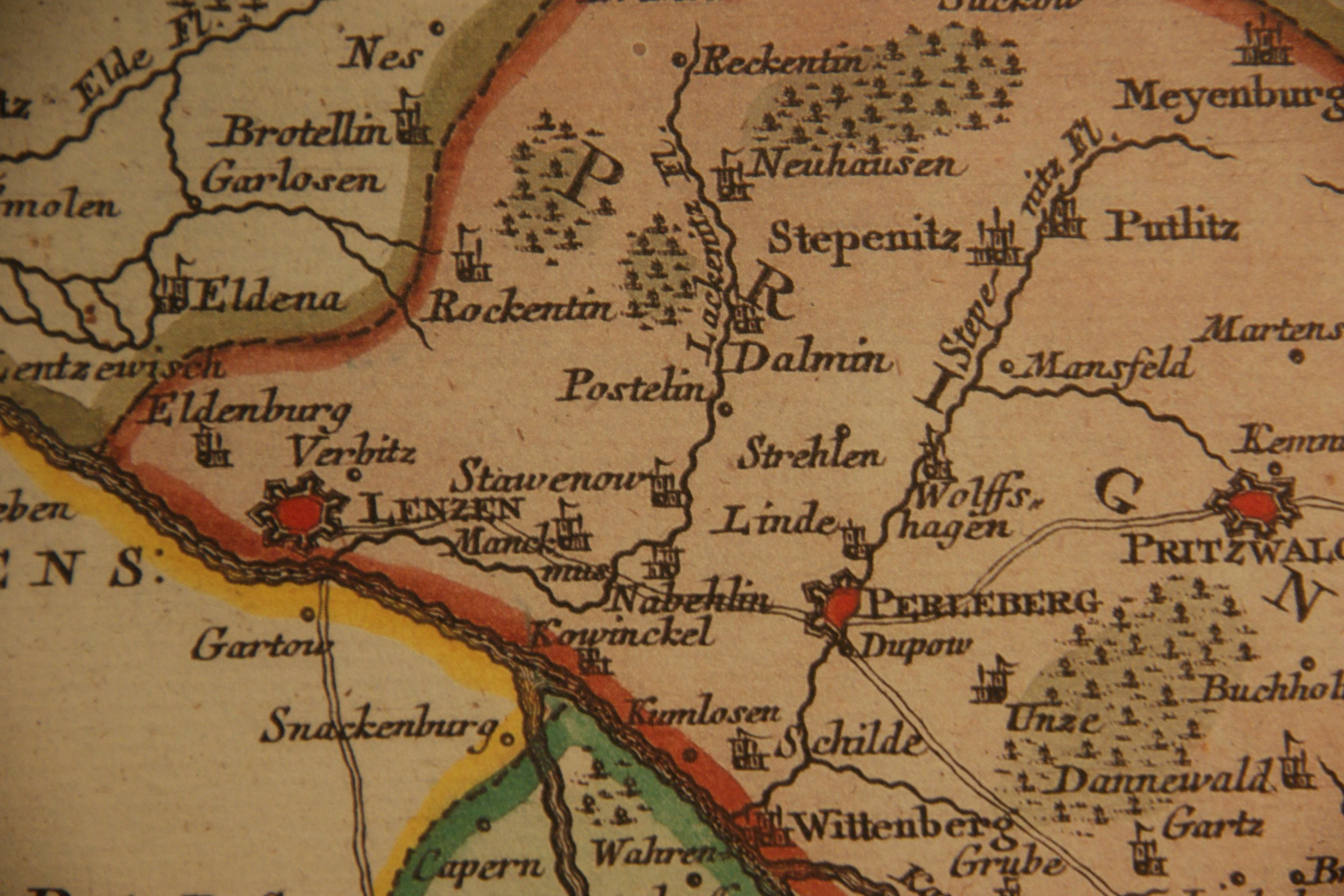 Old mail processing road Berlin - Hamburg